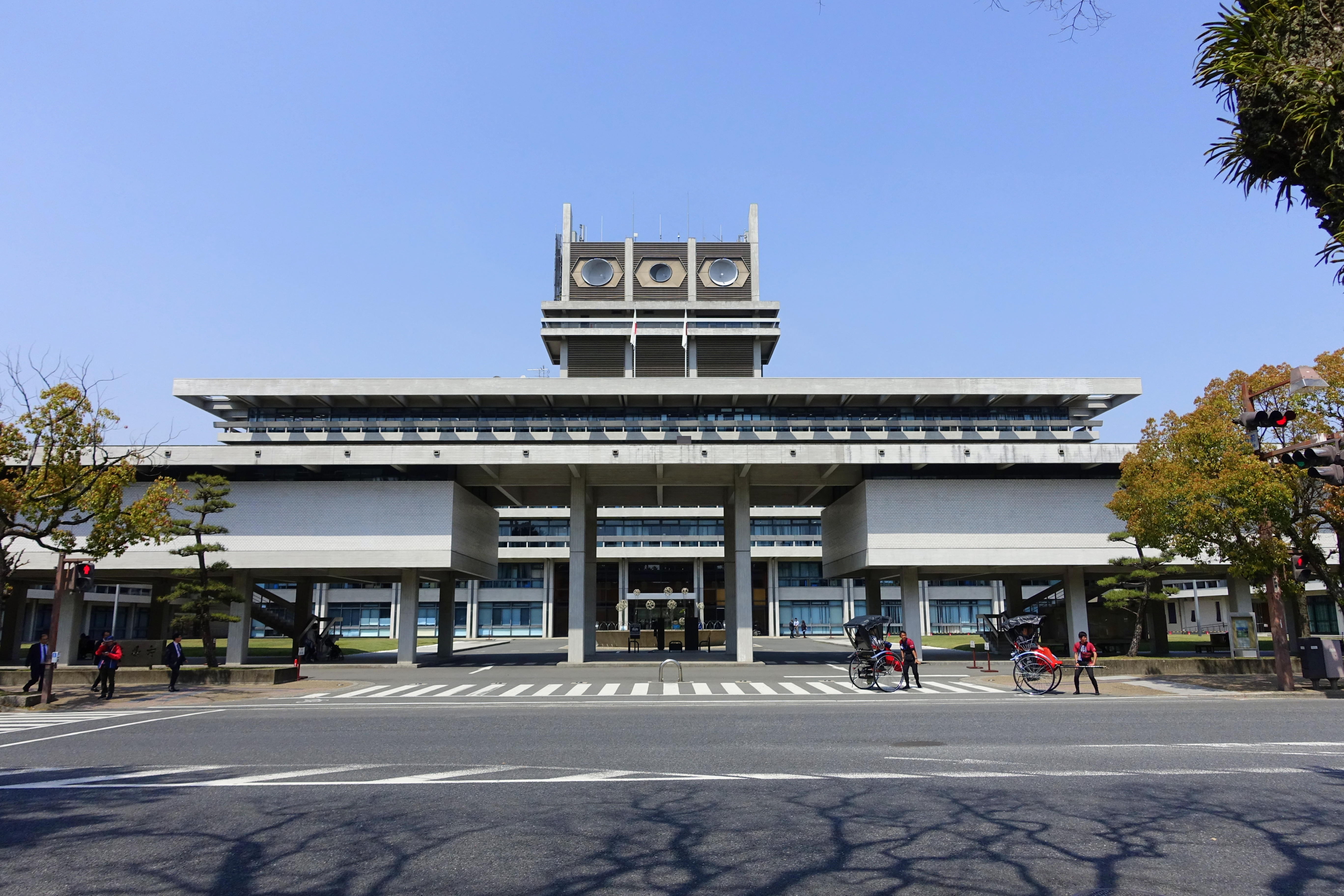 Nara Prefectural Office Building - Nara, Japan.